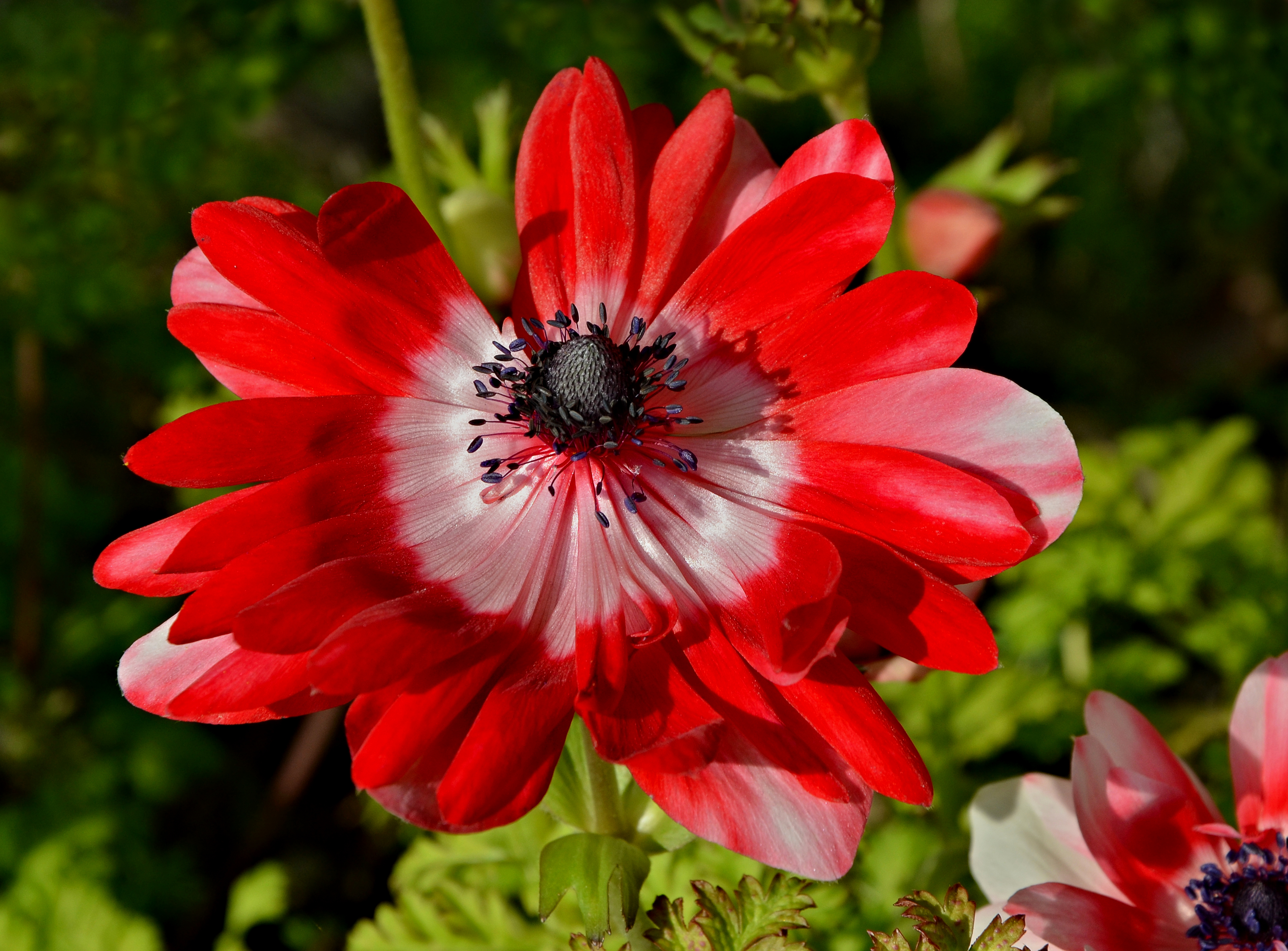 Double flowered anemone (Anemone coronaria), in a garden, France.